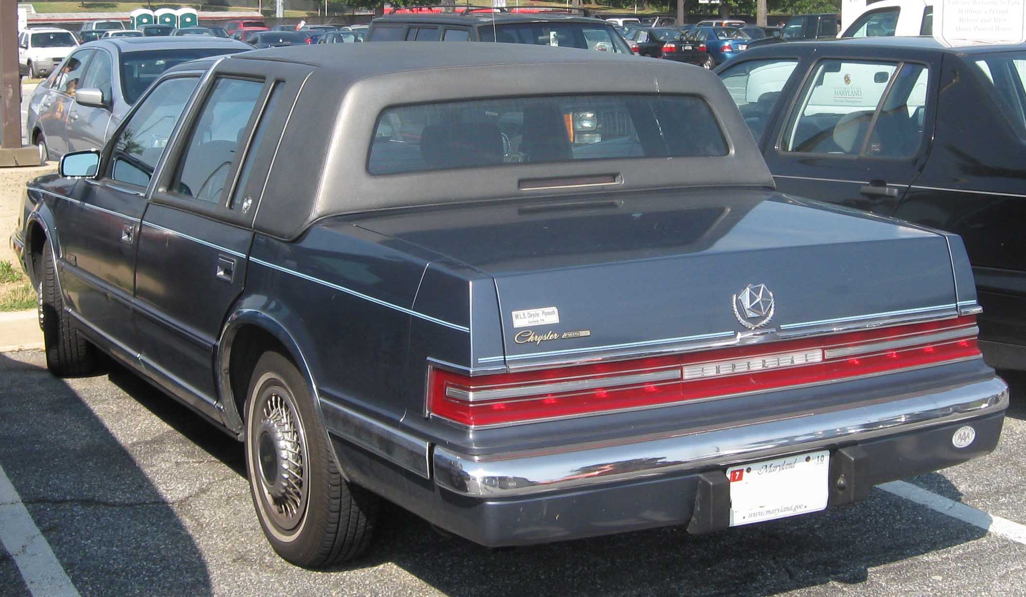 1990-1993 Chrysler Imperial photographed in College Park, Maryland, USA.